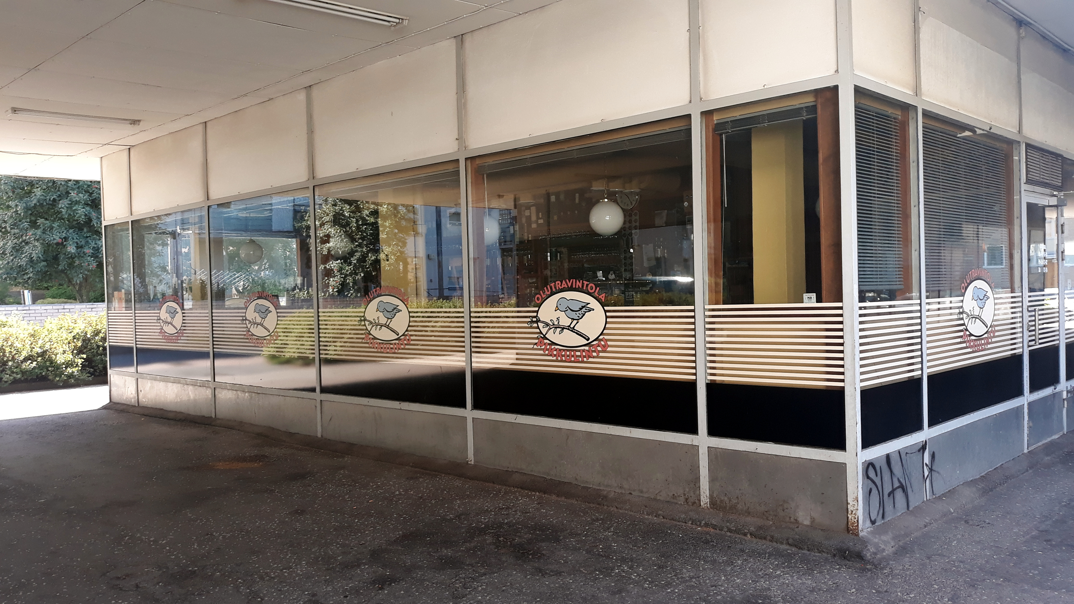 Beer restaurant Pikkulintu in Puotila shopping centre, Helsinki.